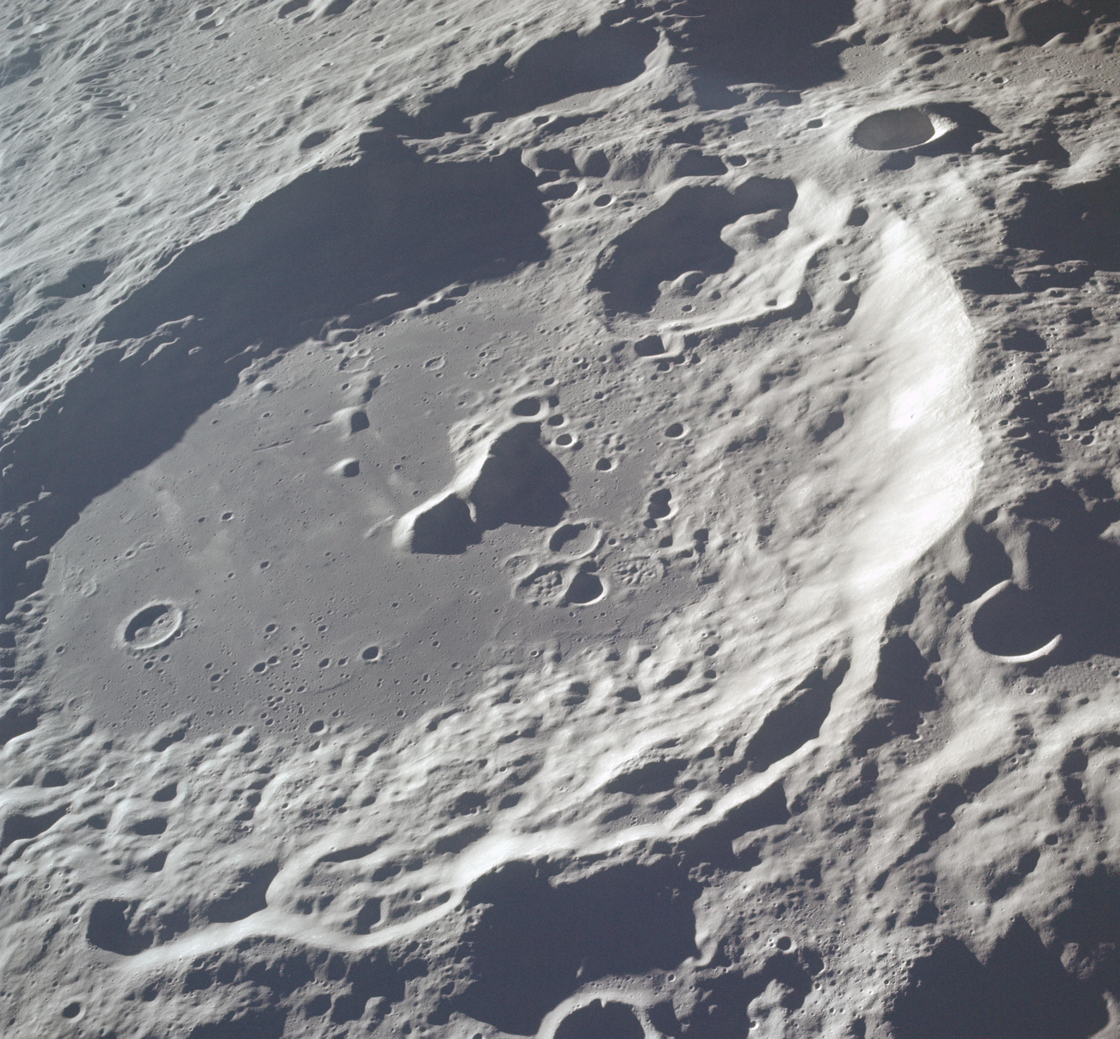 Oblique view of Aitken, on the moon, facing northwest.